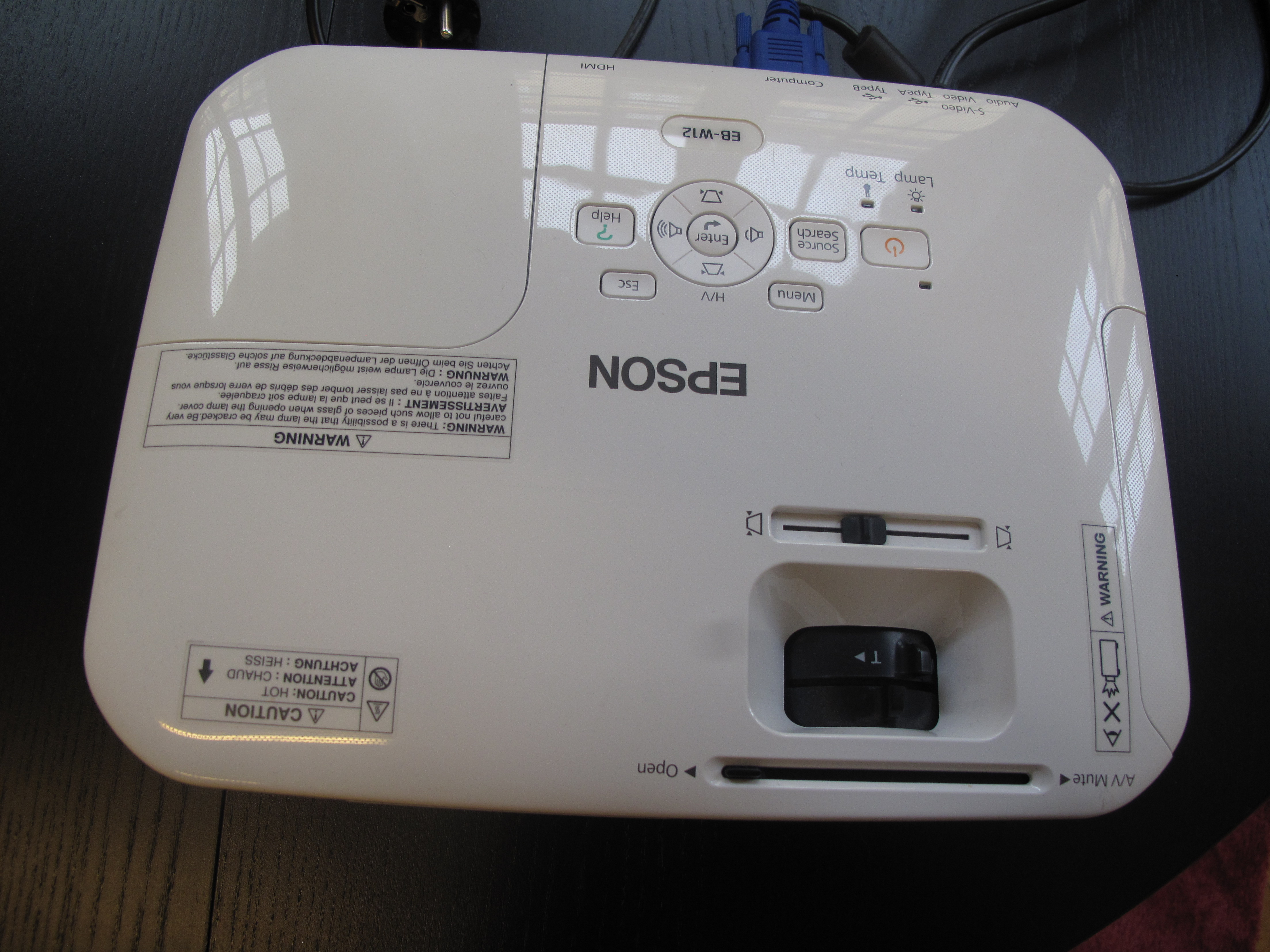 Projektor Epson EB-W12